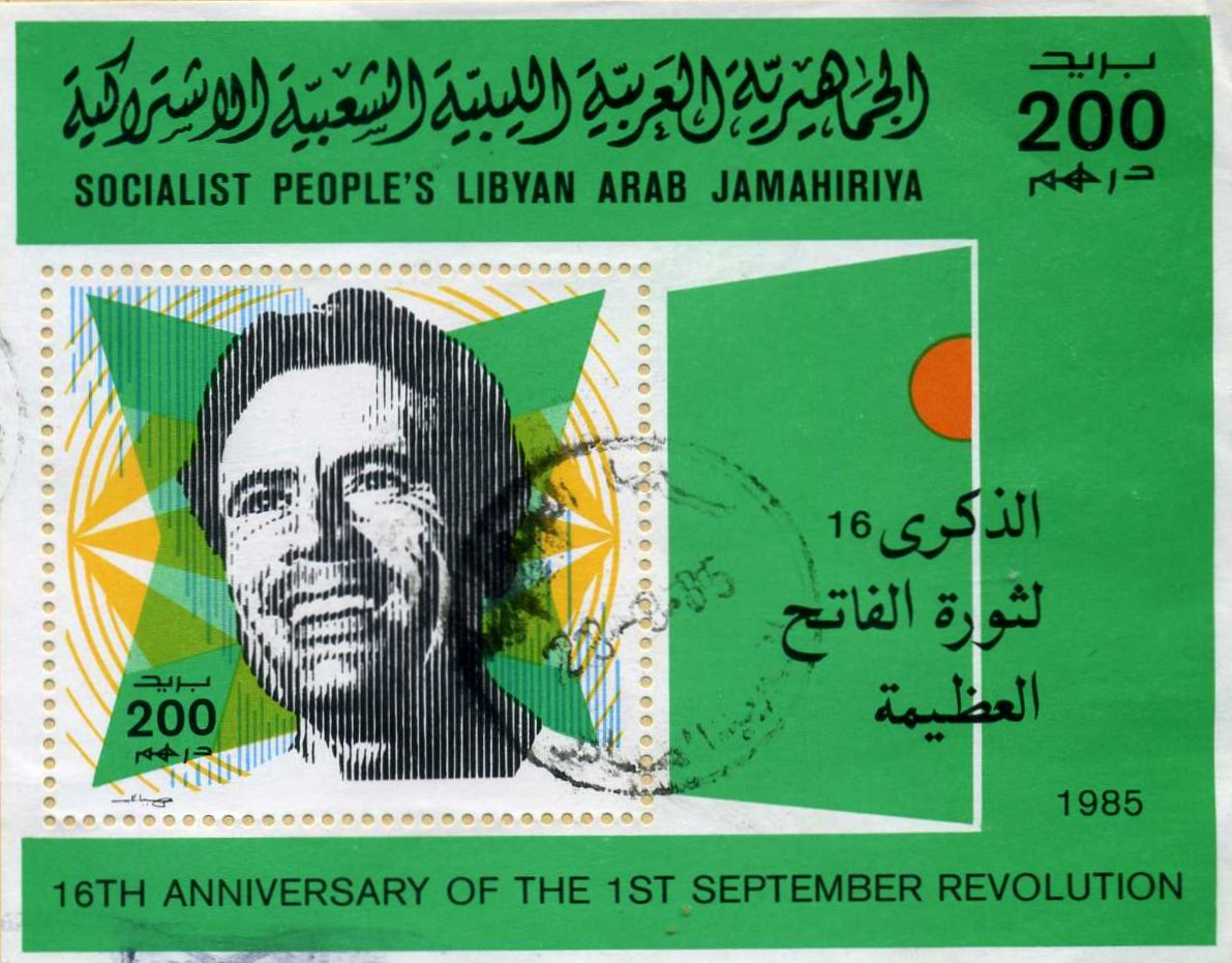 16th anniversary of the Revolution of September 1969 (200 dirhams)